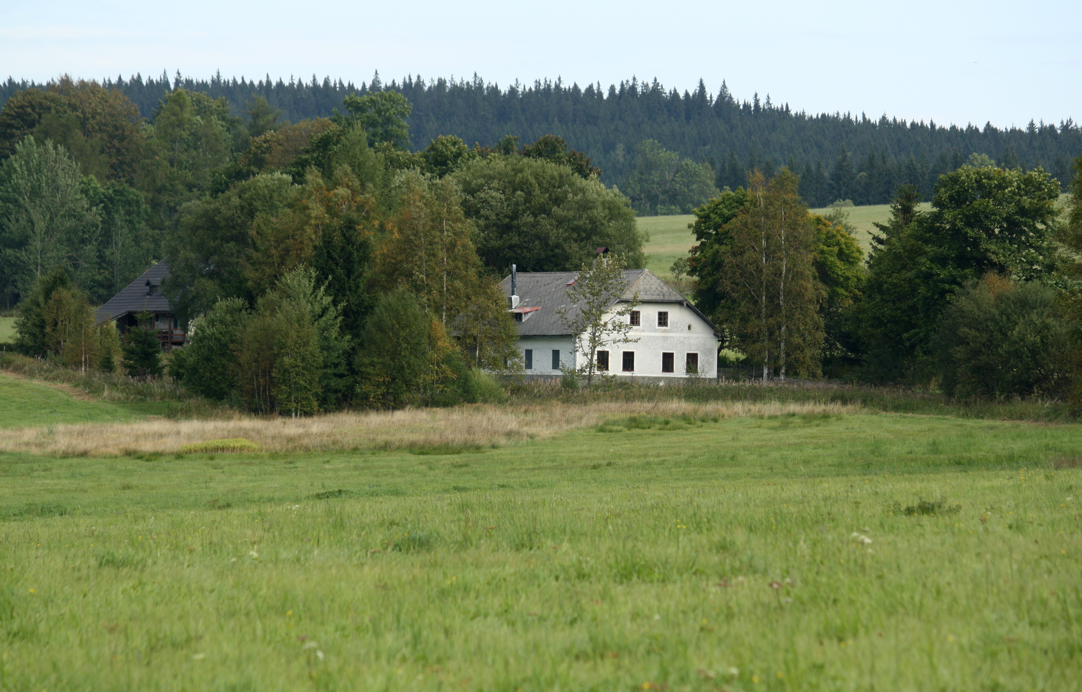 Paseka, part of Borová Lada village, Czech Republic